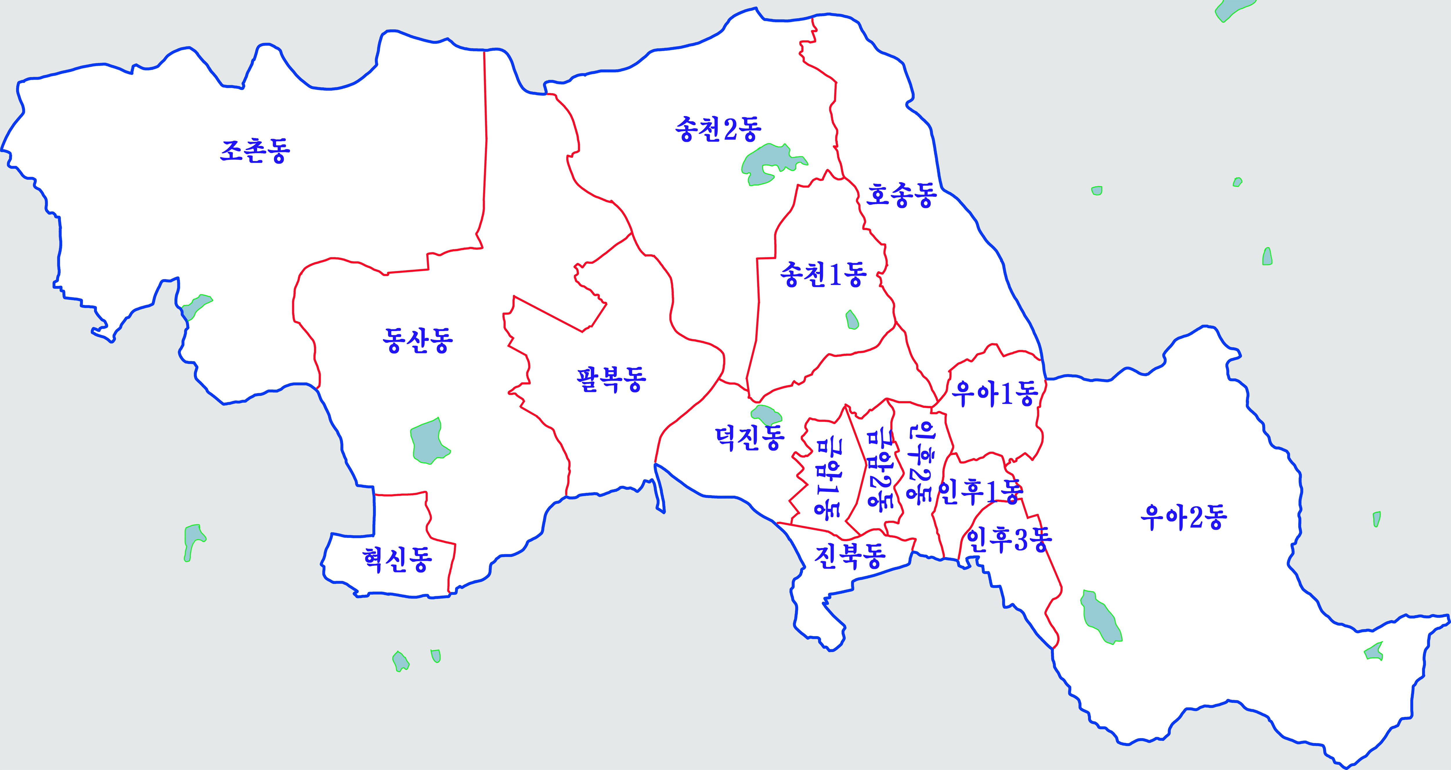 Deokjin-gu, Jeonju